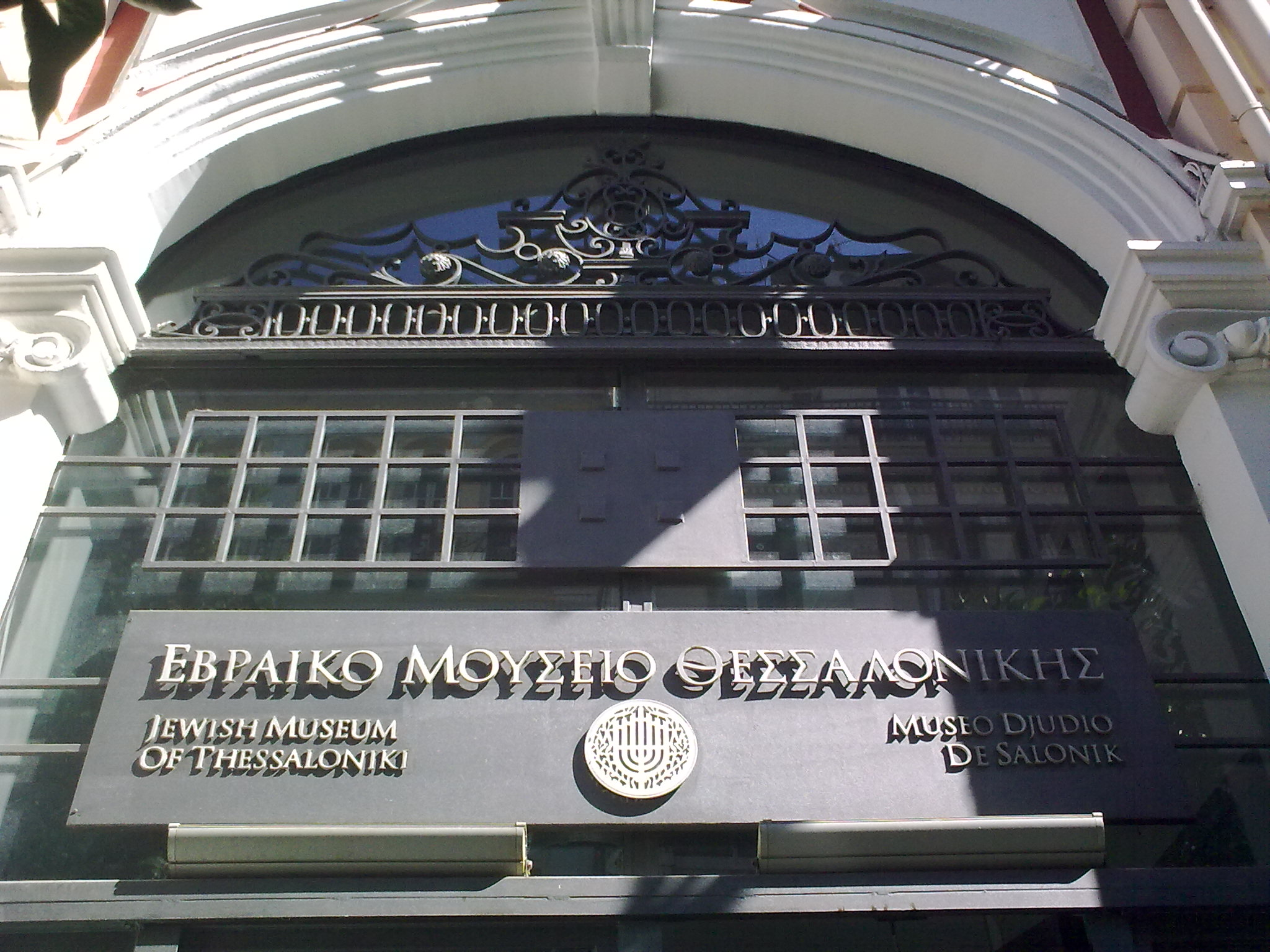 Sign at the entrance of the Jewish Museum of Thessaloniki Ladino: Museo Djudio de Salonik